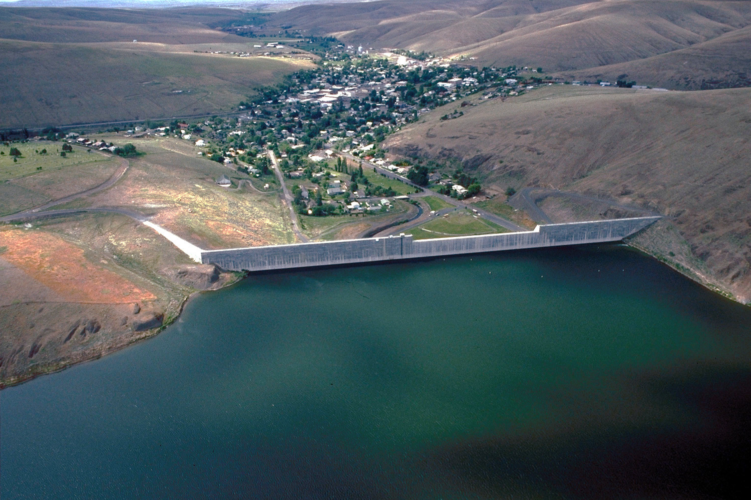 Aerial view of Heppner, Oregon. This photograph was taken from above Willow Creek Lake and Dam which are just above the town.